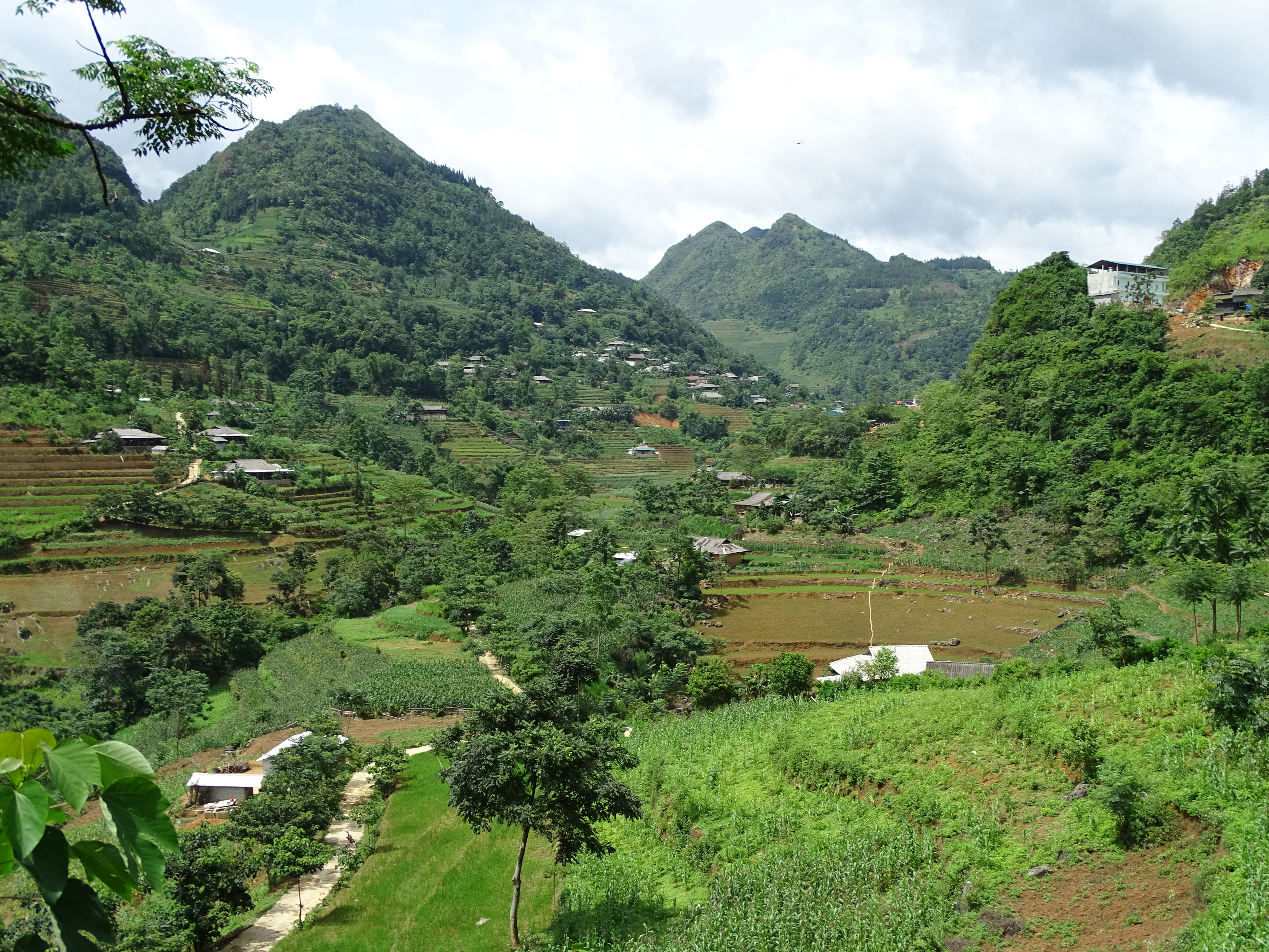 Scenery at Can Cau - Lao Cai Province - Vietnam - 04